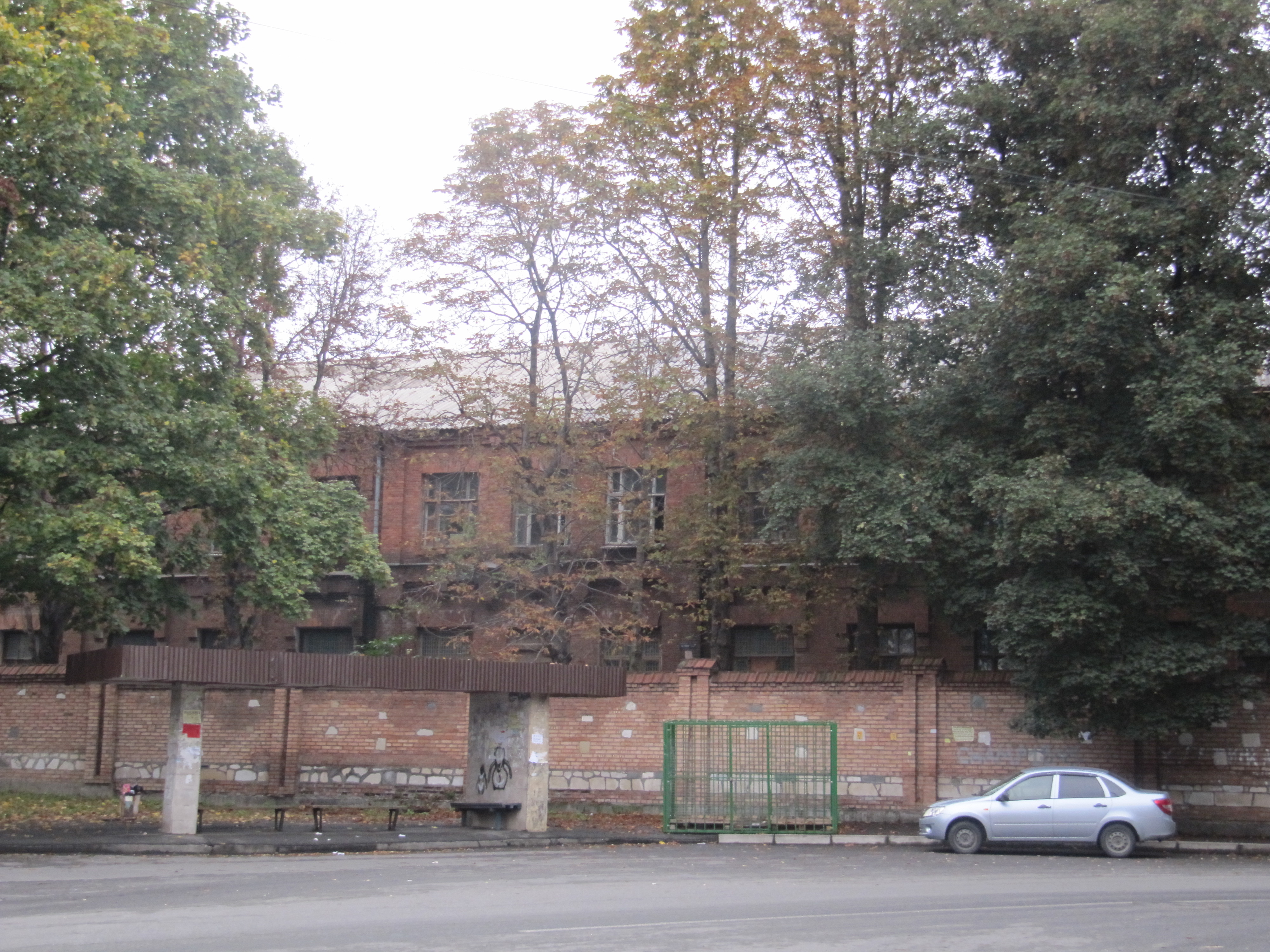 Former Armenian school